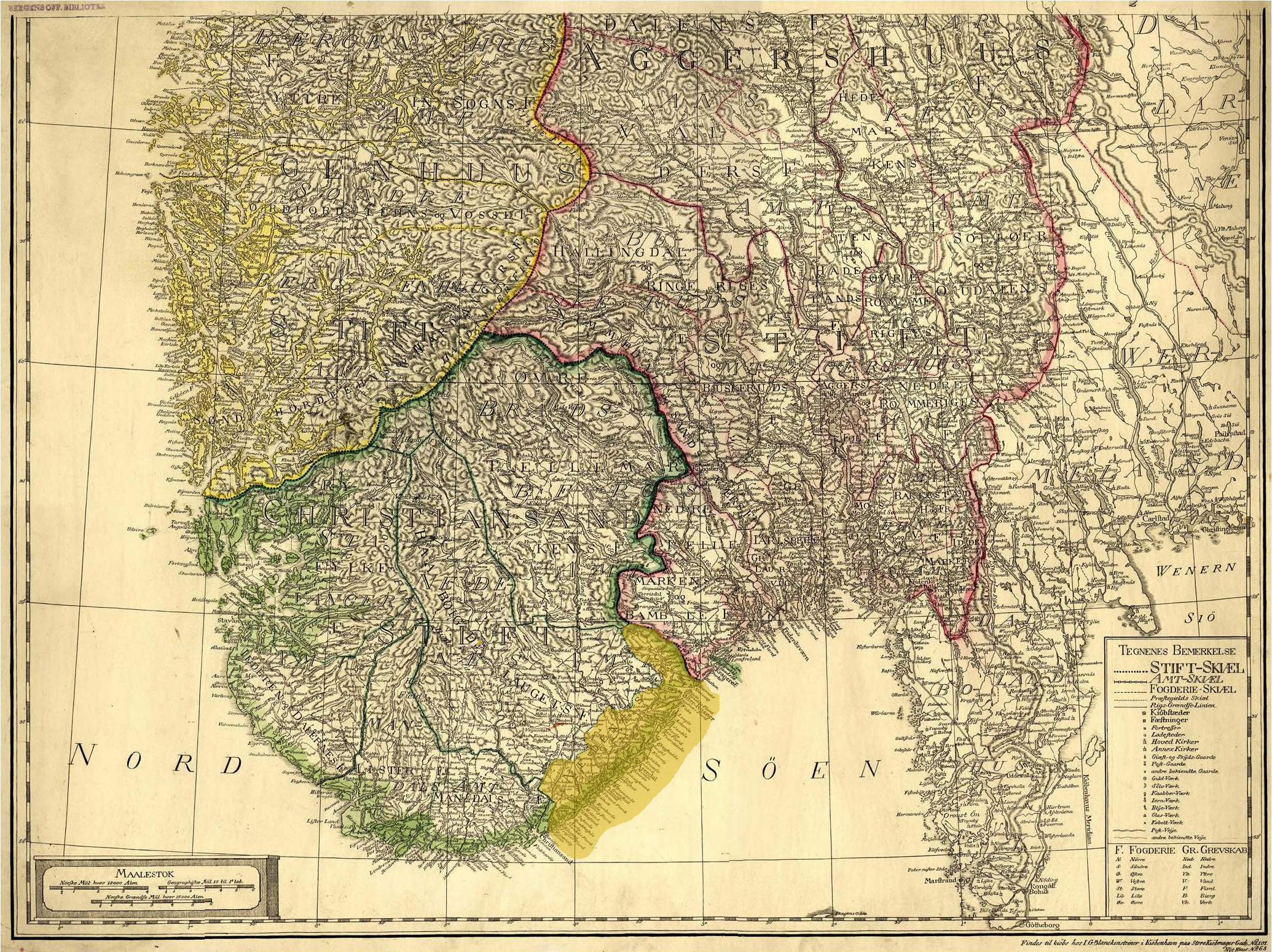 Nedenes fogderi, Made from Pontoppidans map from 1785